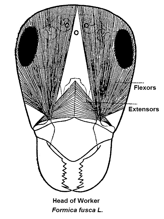 Muscle of ant head (Formica fusca)